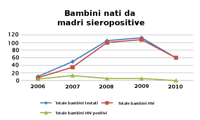 Results Of Babies Born From HIV Positive Mothers